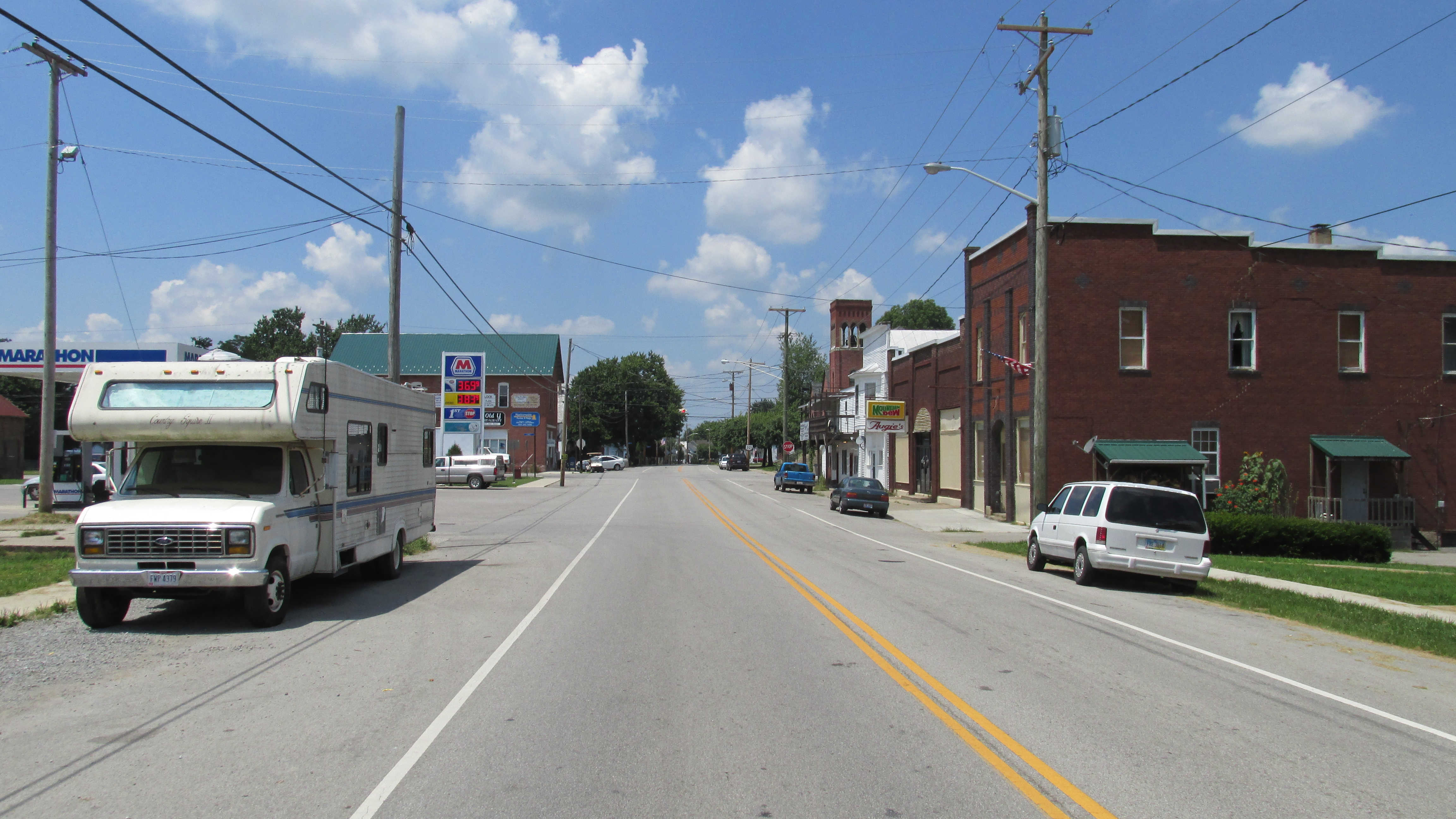 Looking west of Main Street (Ohio Highway 321) in Mowrystown, Ohio.